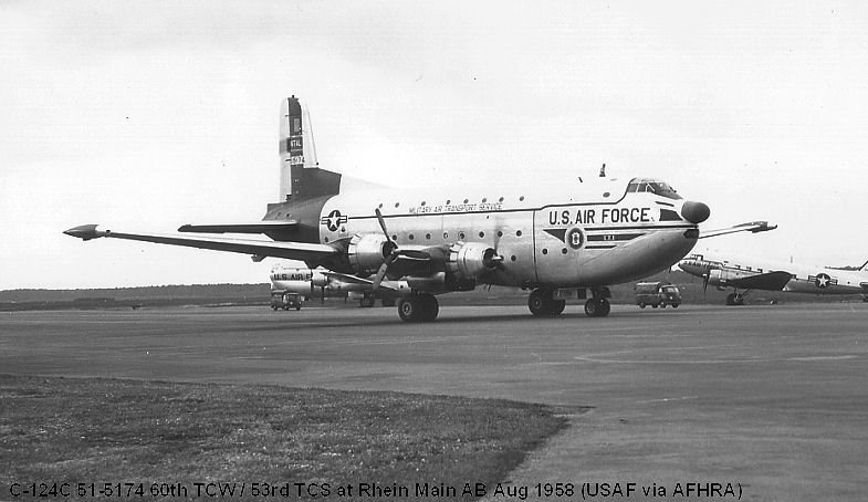 C-124 of the 60th TCW, 1950s